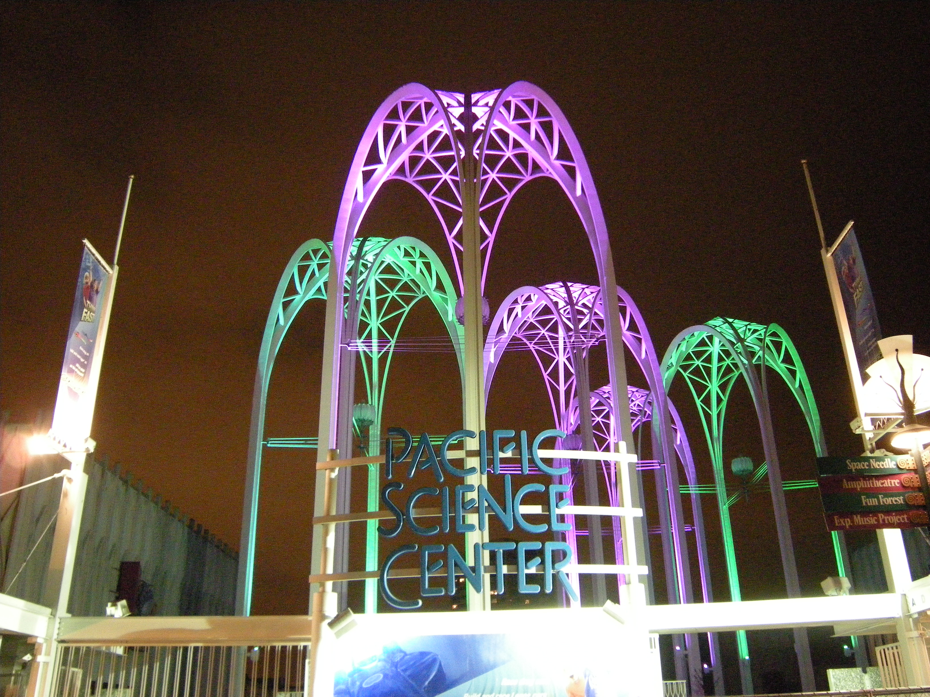 Pacific Science Center, Seattle Center, Seattle, Washington lit up at night.